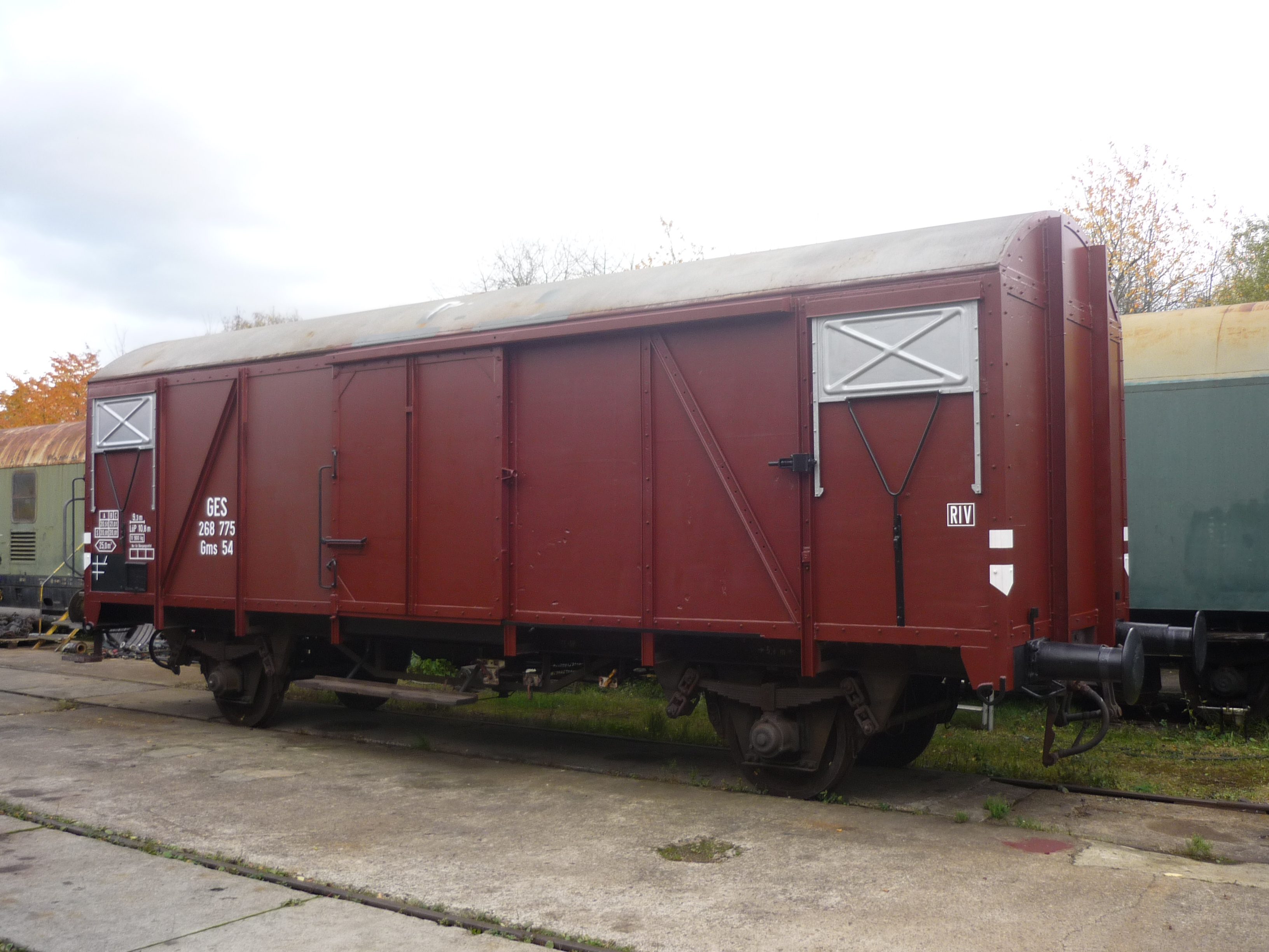 Freight wagon 268775